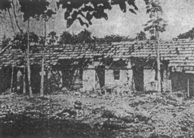 The image is a photograph of the Lichubagan slums in Metiabruz, an industrial suburb of Kolkata where more than 600 Oriya labourers were massacred, during the Great Calcutta Killings in August, 1946.